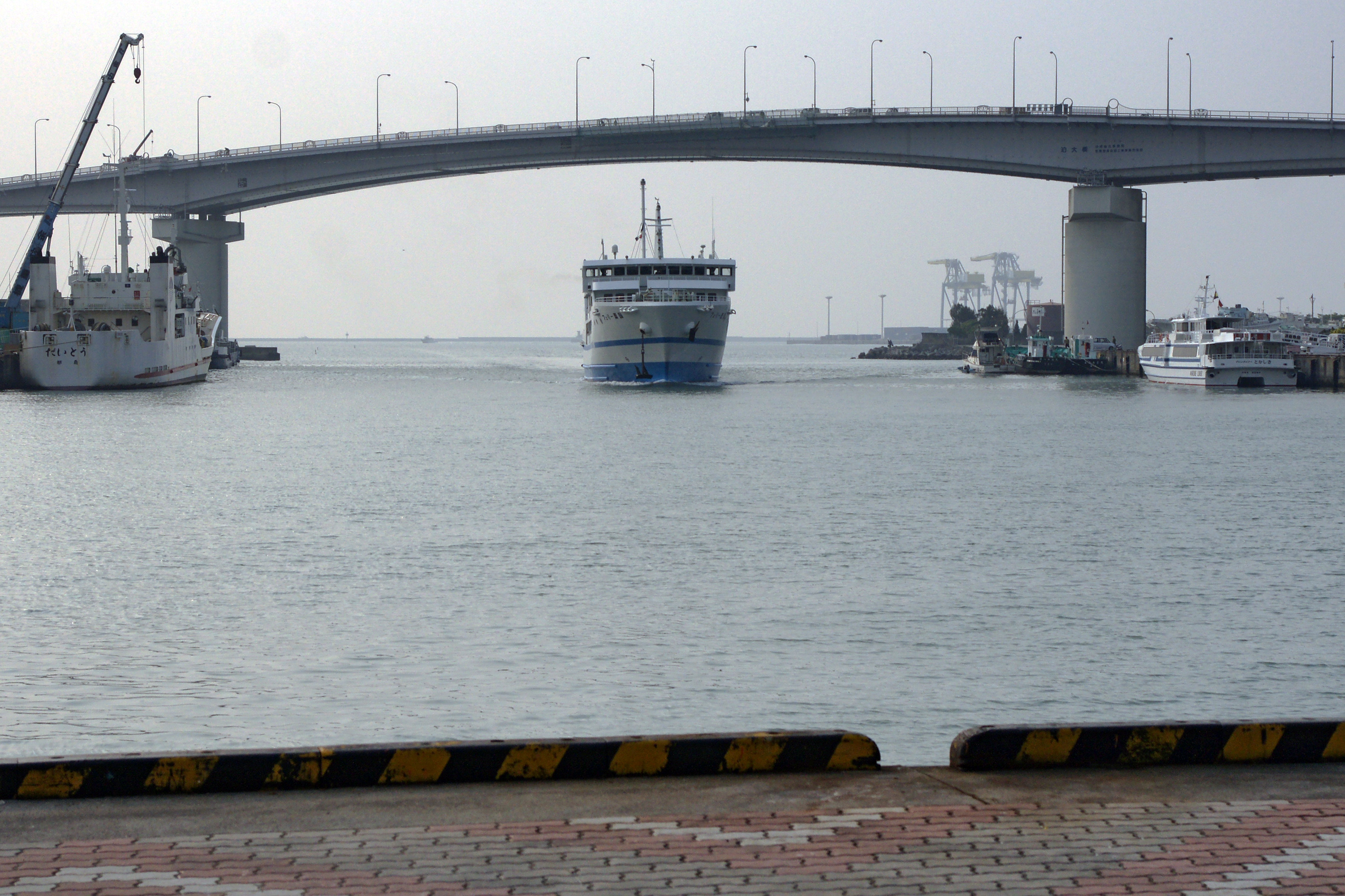 Tomari Wharf of Naha Port, Naha, Okinawa prefecture, Japan